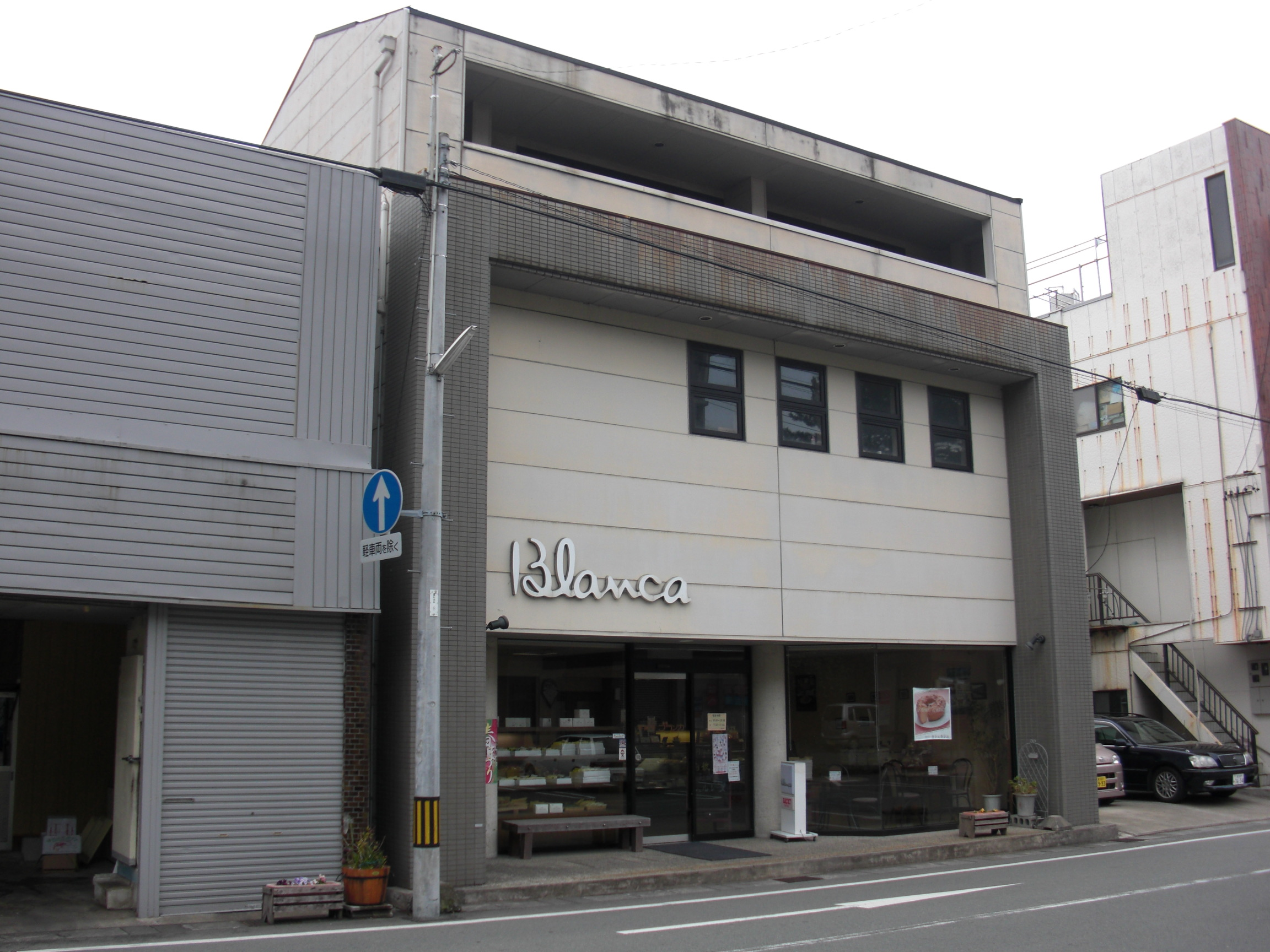 This is the main shop of Blanca, which is located in Toba, Mie, Japan.